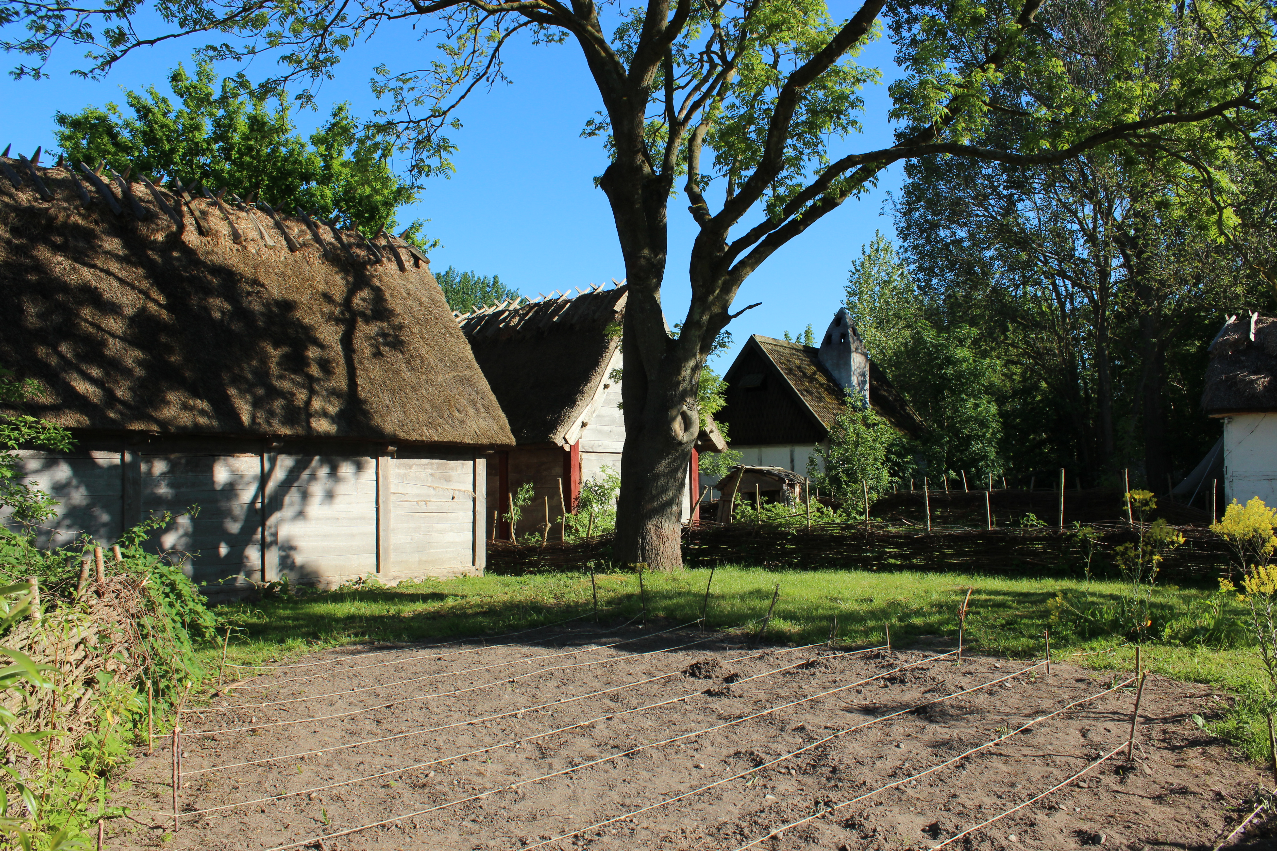 The backside of some house in the recreated medieval town of Sundkøbing at Middelaldercentret (The Medieval Centre) in Denmark.